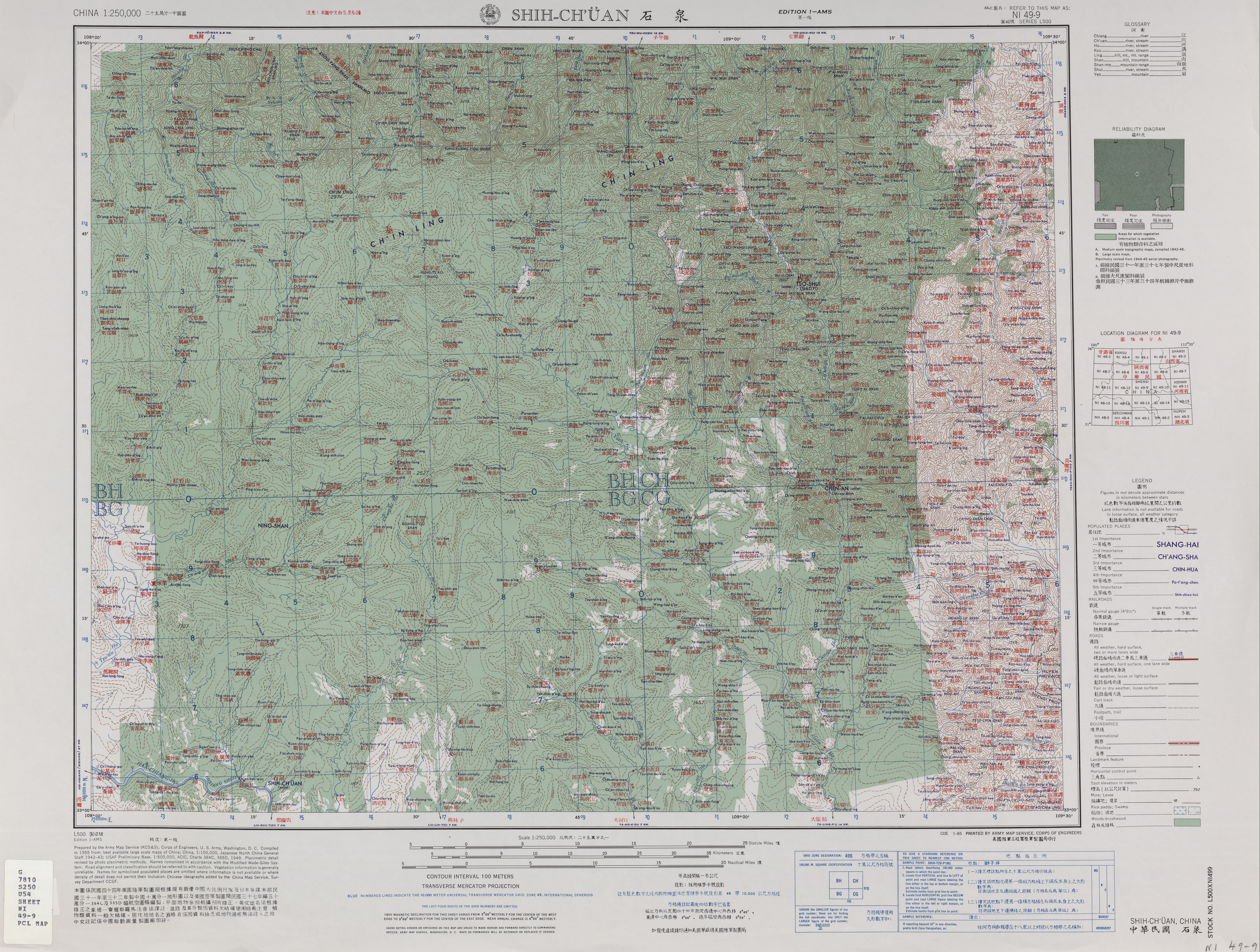 China AMS Topographic Maps